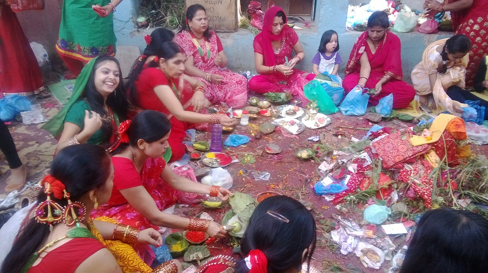 Women offering pooja for Saptarishi during Rishipanchami.